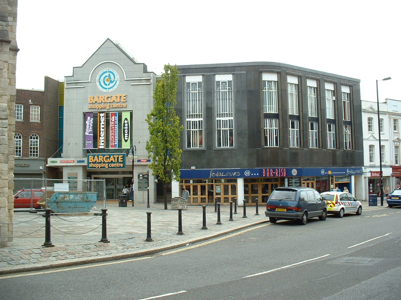 Southampton's Bargate shopping centre. The Bargate itself (which gives the centre its name) is just about vsible to the left.